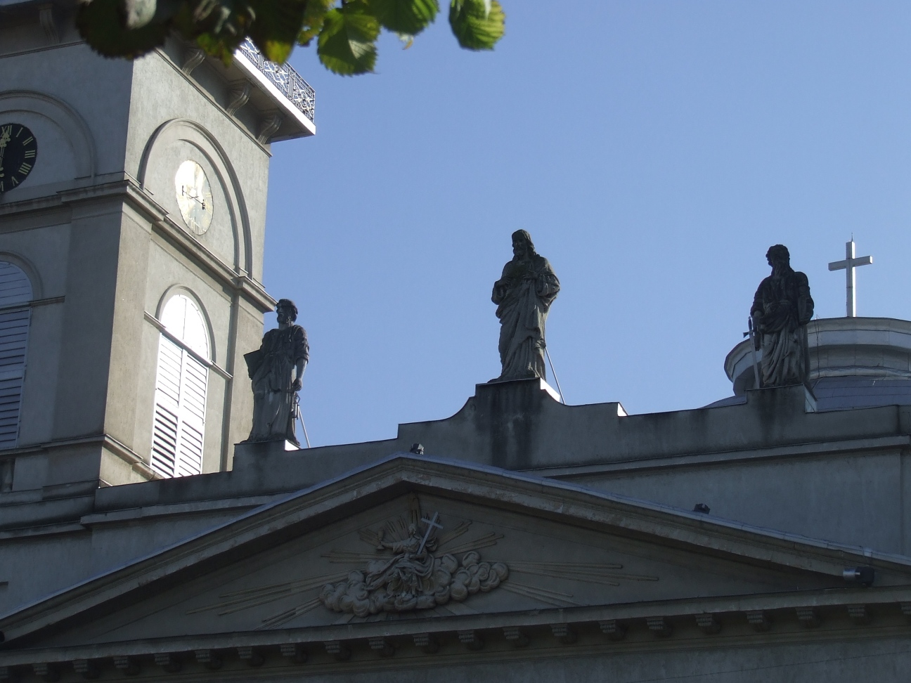 Roman Catholic Cathedral in Satu Mare, Romania